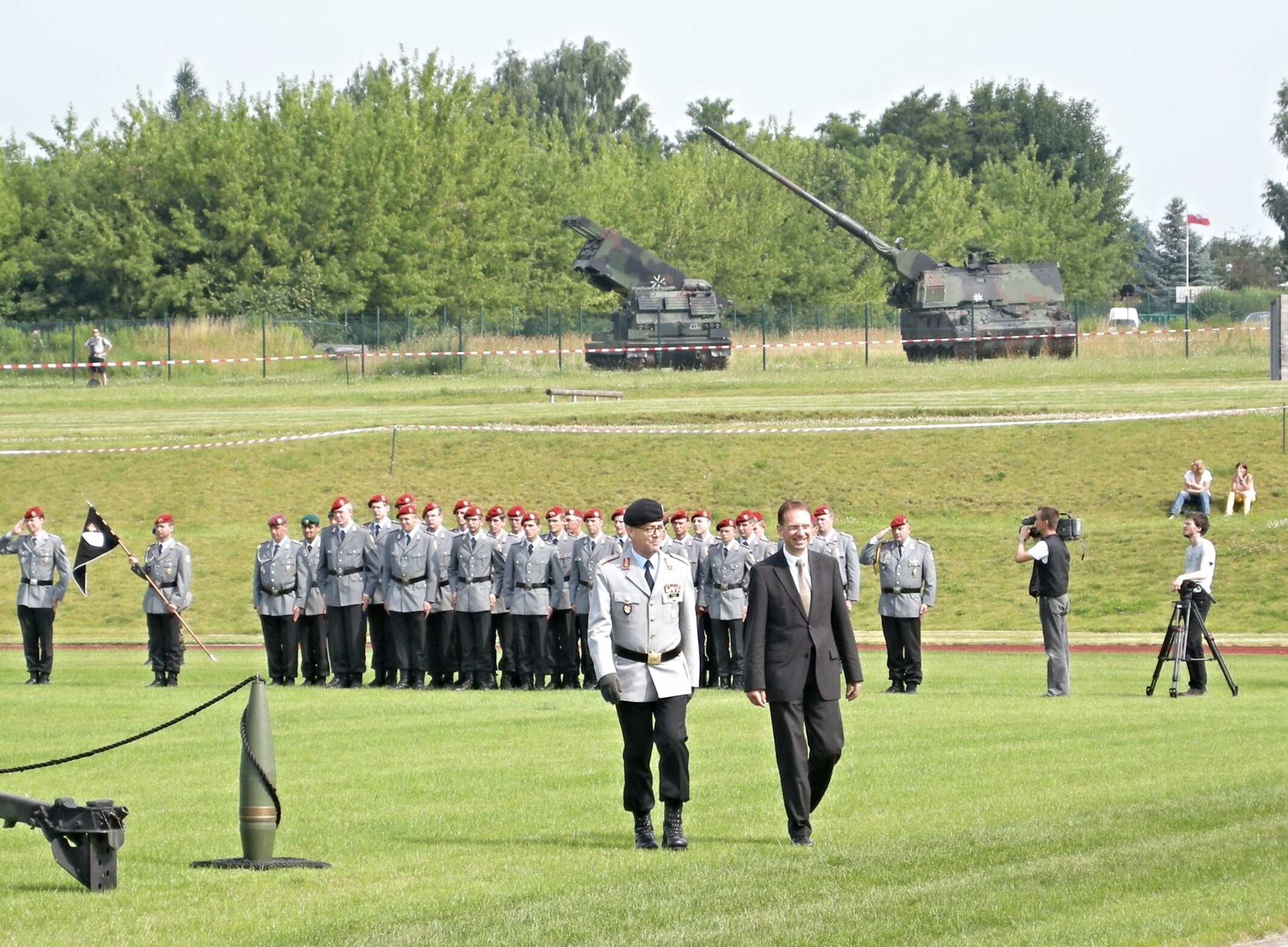 Open door day at the Görmar barracks in Mühlhausen, Thuringia, Germany, with minister-president Dieter Althaus on 4 July 2009 Original caption: "04.07.2009: Erster Tag der offenen Tür des Artillerieregiments 100 in der Görmar-Kaserne im thüringischen Mühlhausen. Während eines Appels erhält das Regiment vom Stellvertretenden Divisionskommandeur der 1. Panzerdivision, Brigadegeneral Heinz Georg Wagner, eine eigene Truppenfahne überreicht. Weiterhin verleiht der Ministerpräsident des Freistaates Thüringen, Dieter Althaus, dem Regiment das Fahnenband des Ministerpräsidenten und der Inspekteur des Heeres, Generalleutnat Hans Otto Budde, verleiht dem Regiment den Beinamen "Freistaat Thüringen". Gemäß Stationierungskonzept 2011 werden die in Mühlhausen beheimateten Artillerieeinheiten (ArtRgt 100 und BeobPzArtBtl 131) aufgelöst und in die verbleibenden vier Artillerieverbände der Bundeswehr aufgehen. Die Standorte der Artillerie der Bundeswehr werden sein: Munster, Weiden, Idar-Oberstein und Stetten. Diese Artillerieverbände werden gemischte Bataillone mit allen Waffensystemen der deutschen Artillerie sein."